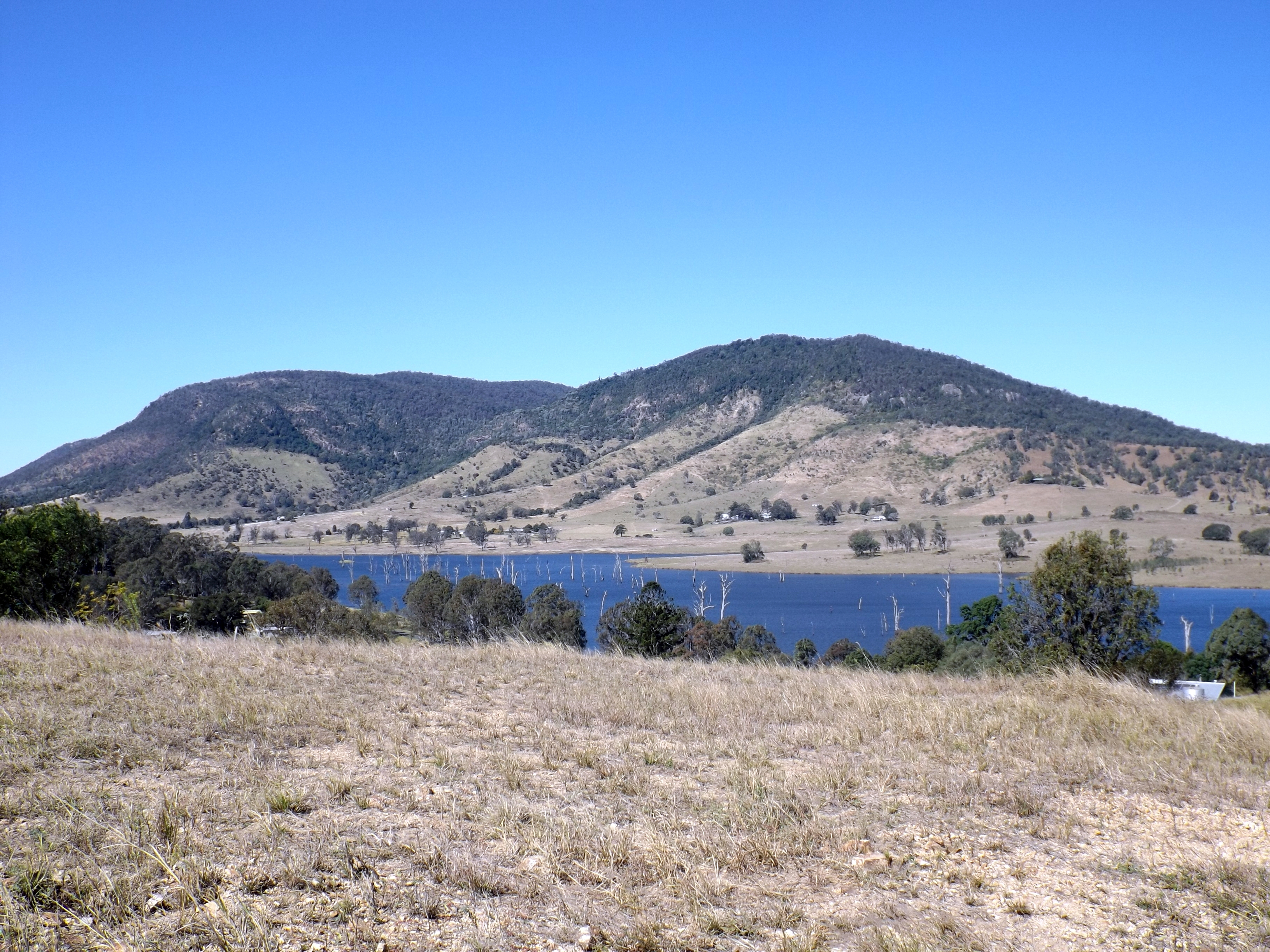 Photo of Mount Archer and Somset Dam from Viileneuve, Somerset Region, Queensland, Australia.